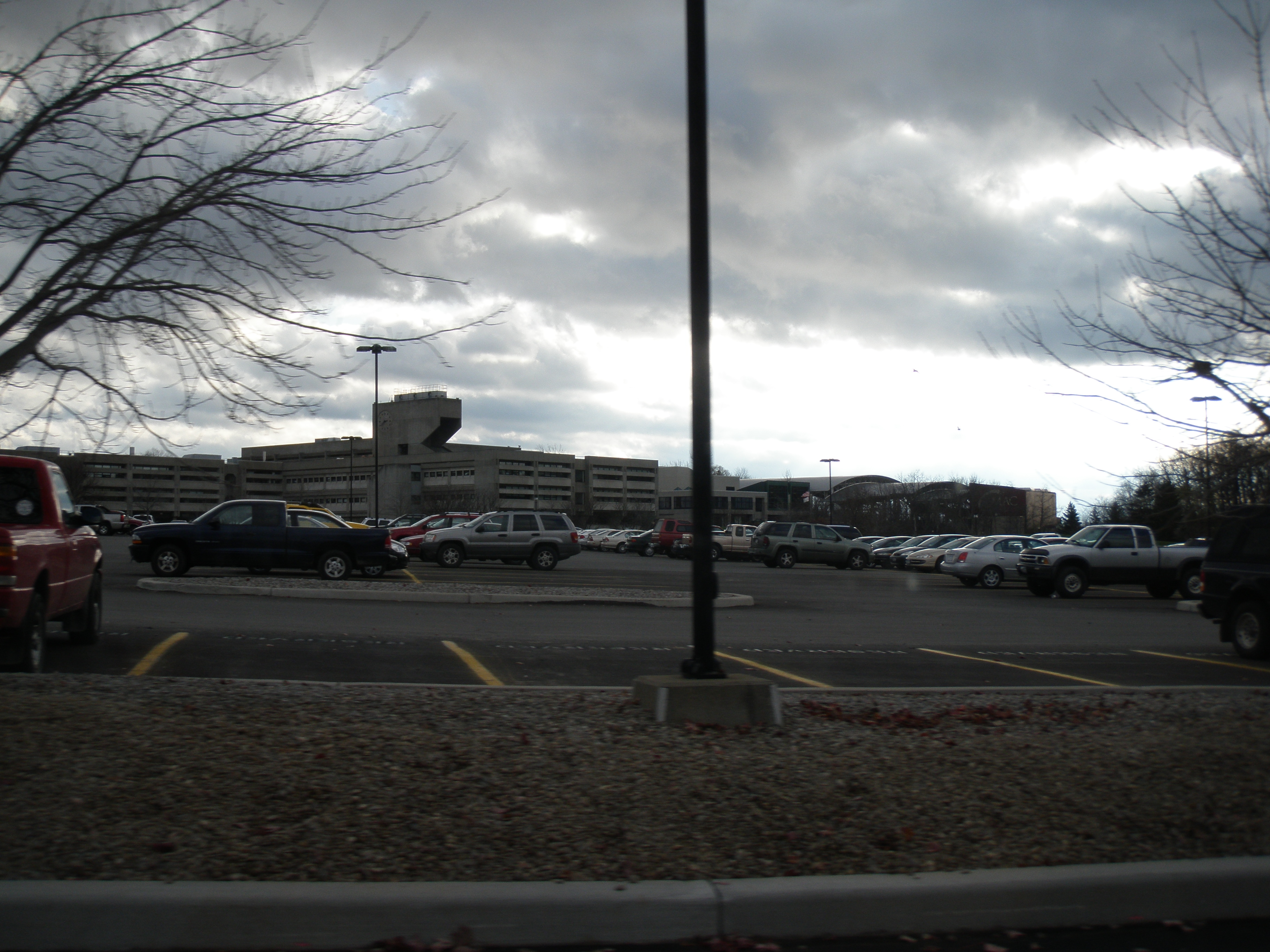 FLCC concrete building; fallout shelter